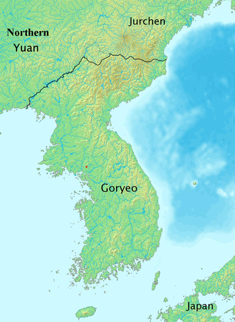 this is a map of koryo dynasty which is made by South Korean.